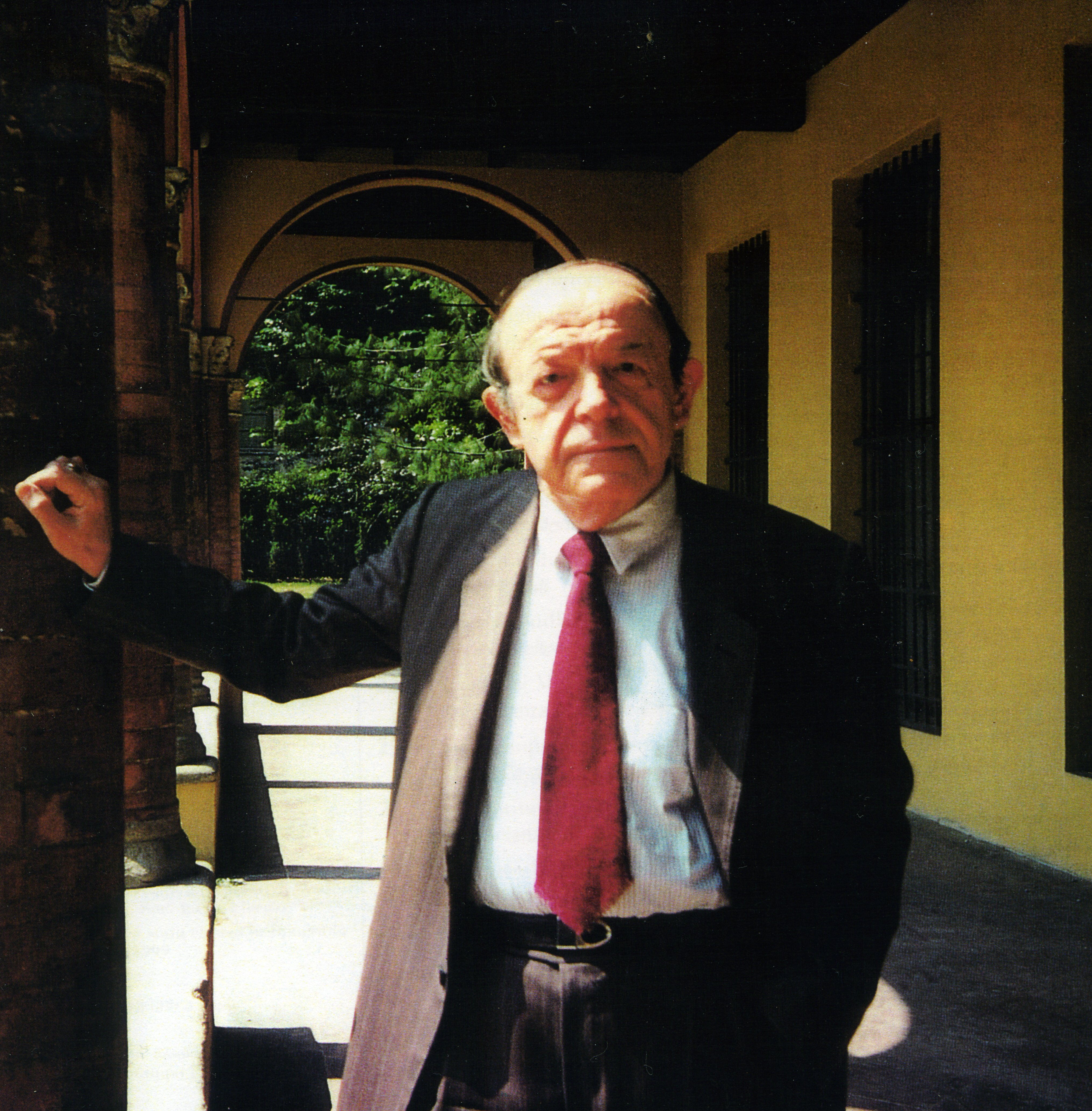 Piero Camporesi - Palazzina della Viola - Bologna University